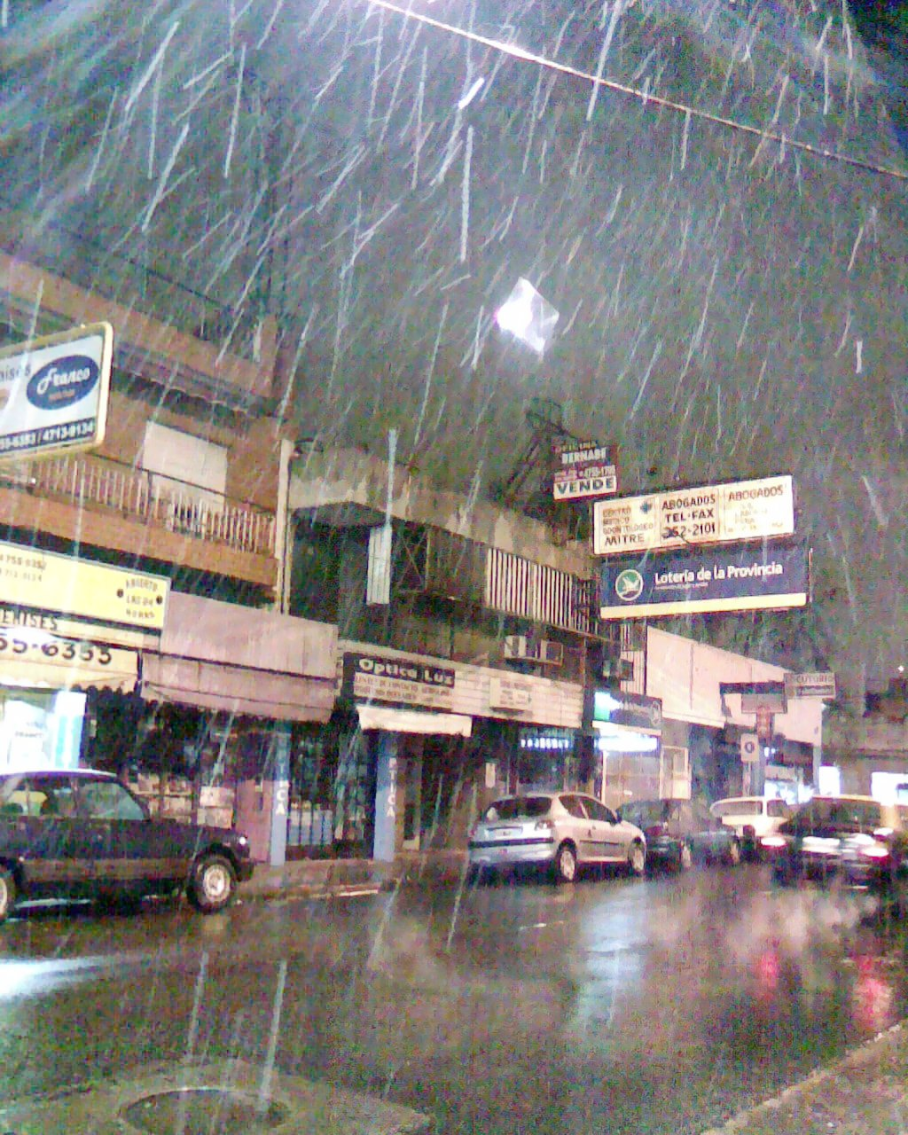 For the first time in 89 years, it snowed in the capital of Argentina.